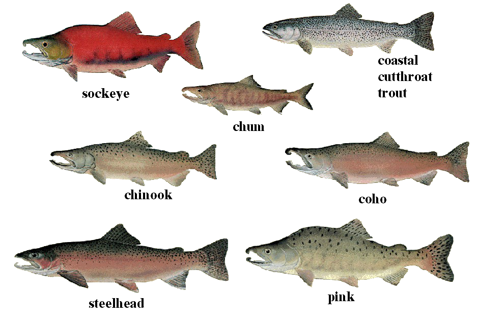 Illustration of various salmon